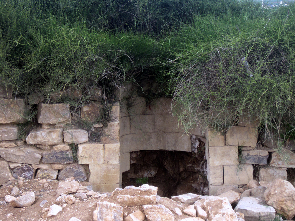 Battle of Mu'tah place in jordan